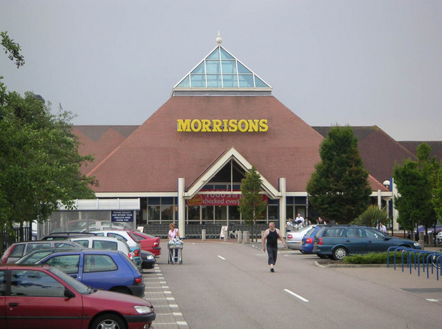 Morrisons Supermarket. Part of the Westcroft Shopping Area, was originally a Safeway store.